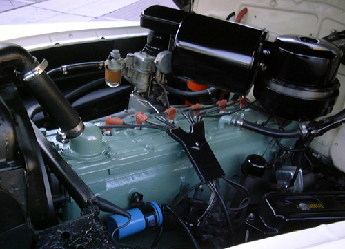 A en:1940s Oldsmobile Straight-8 engine. Photograph taken by Morven at the weekly Garden Grove, California car show on Friday, May 14, en:2004.